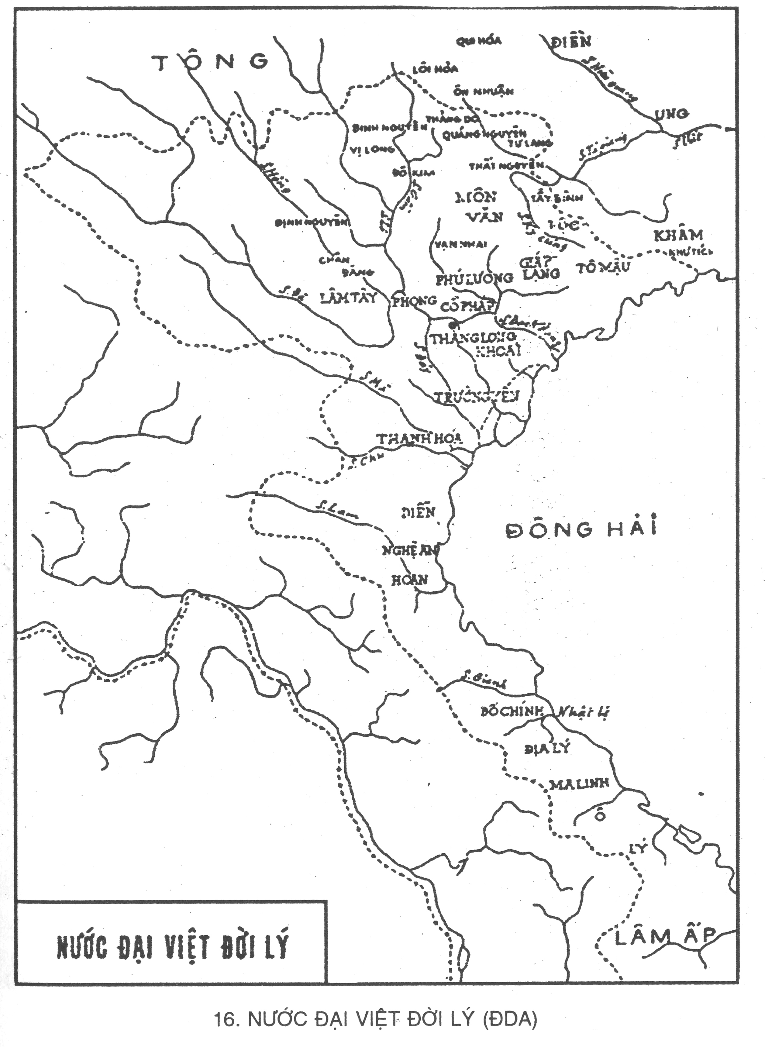 gdgdsgsdg